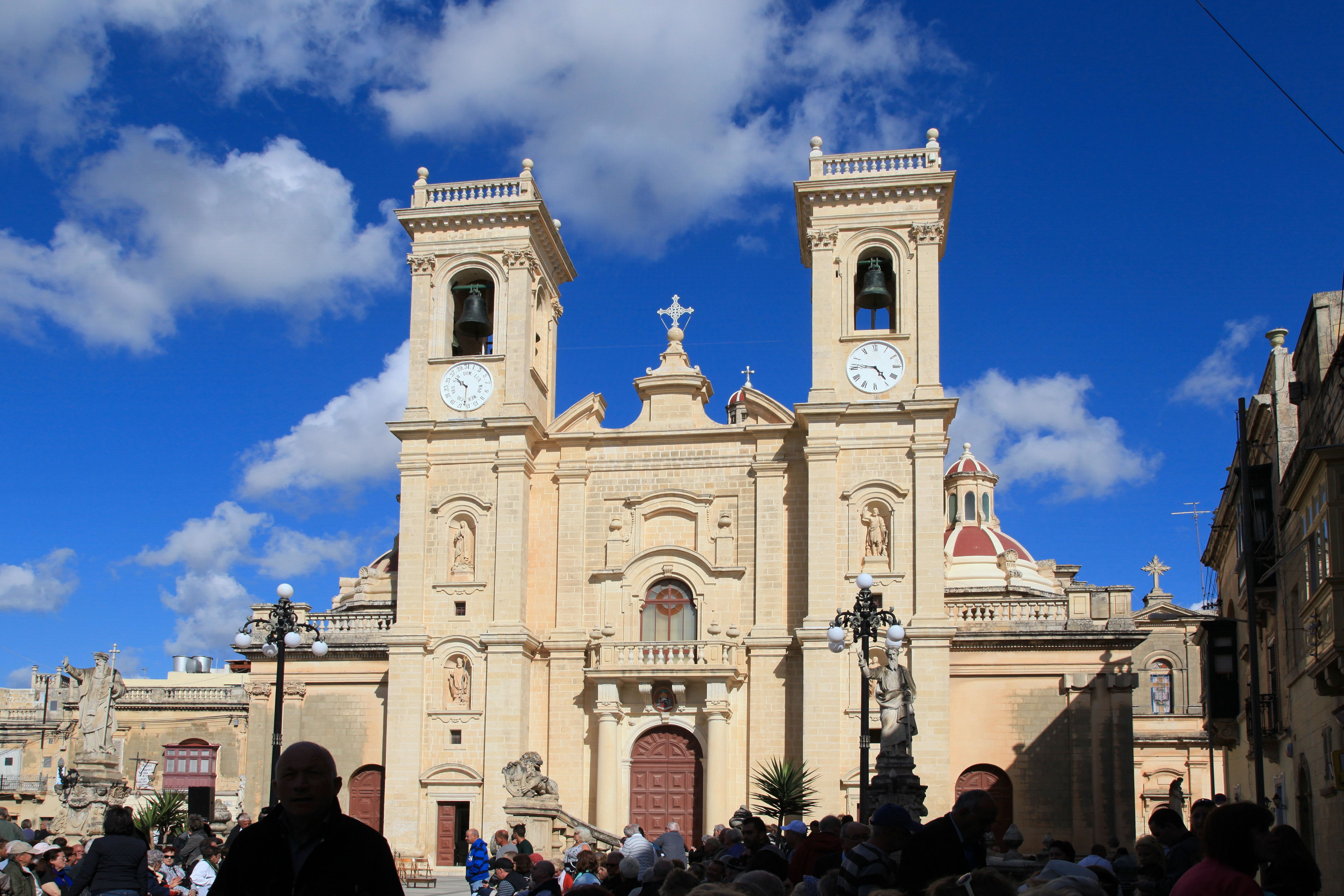 2014 Good Friday procession, Misraħ San Filep in Żebbuġ, Malta